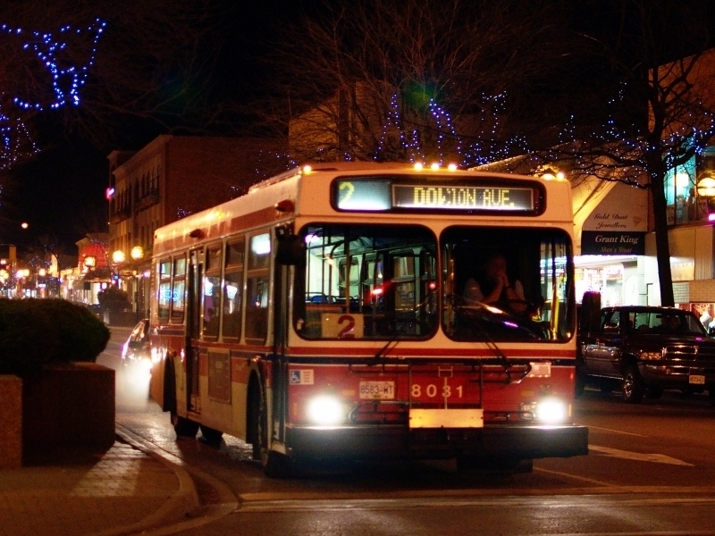 Penticto Transit bus